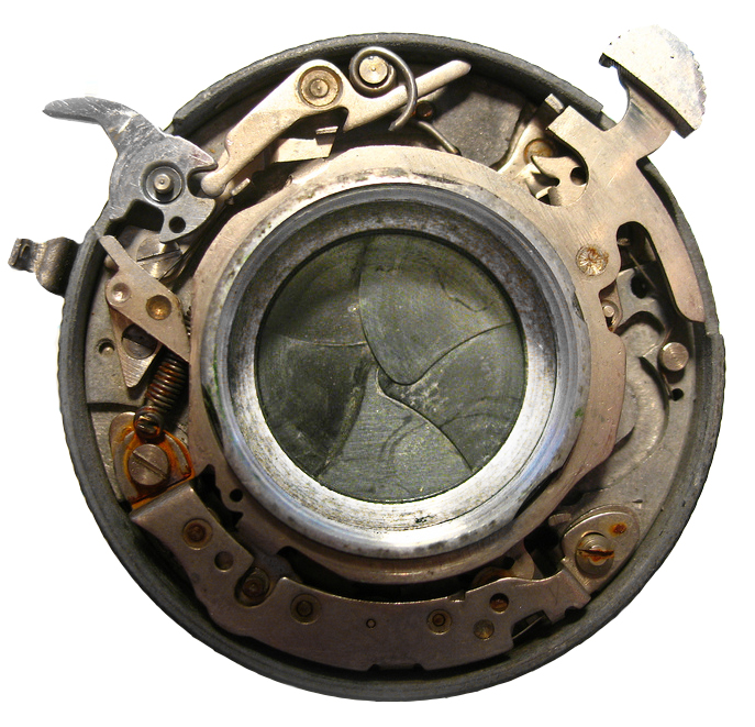 Central shutter